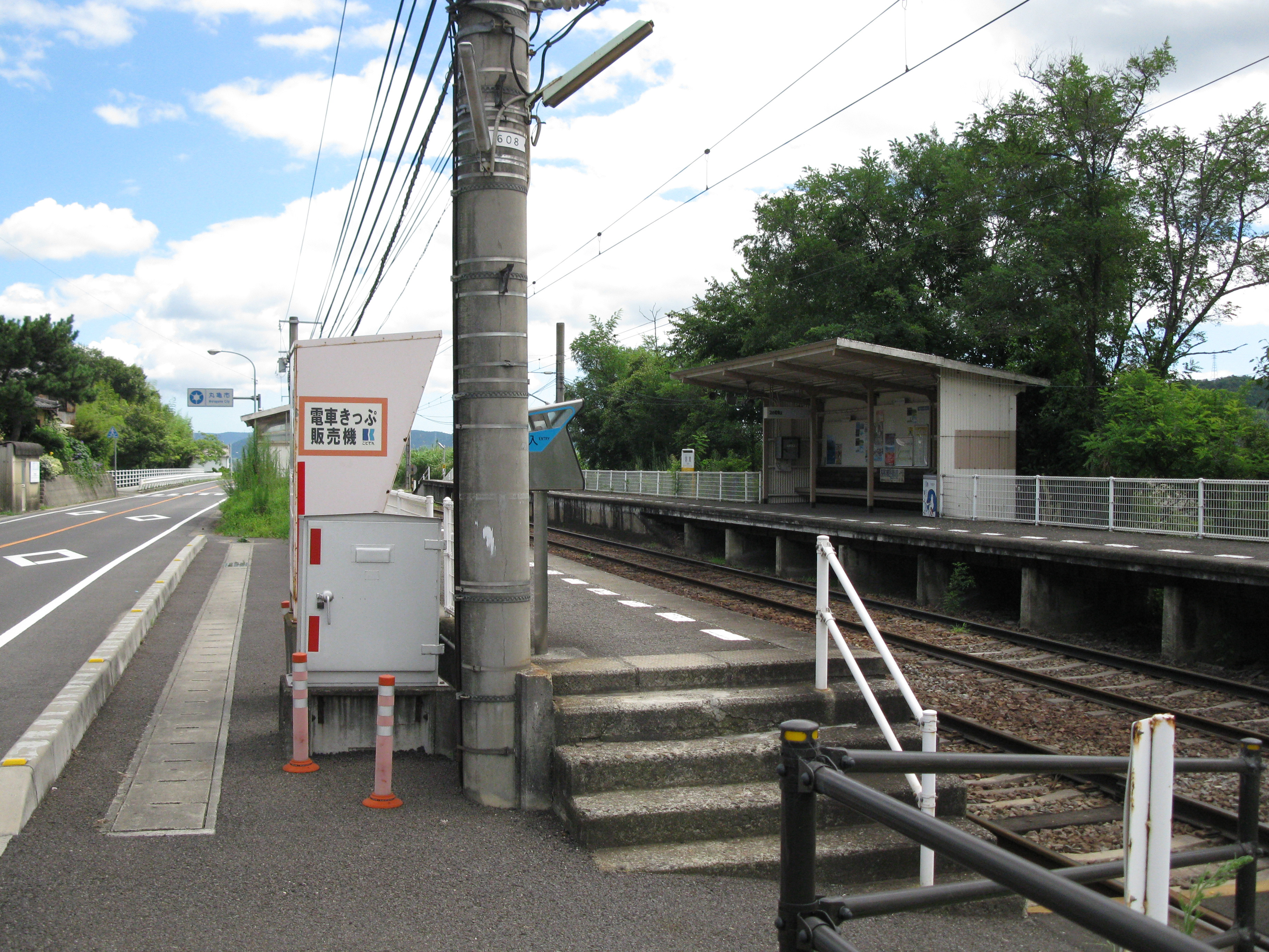 Hazama Station entrance (Takamatsu-Kotohira Electric Railroad(Kotoden) Kotohira Line)